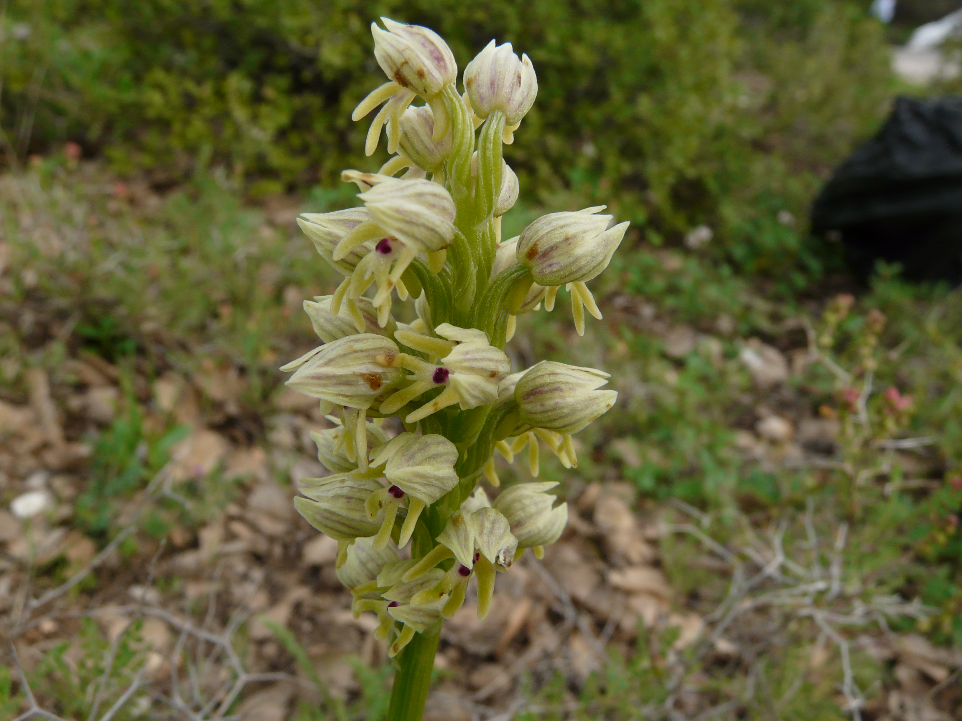 Orchis galilaea, Dibben Forest, Jordan. This is quite different from other forms of this species which can have dense, pink flowers.